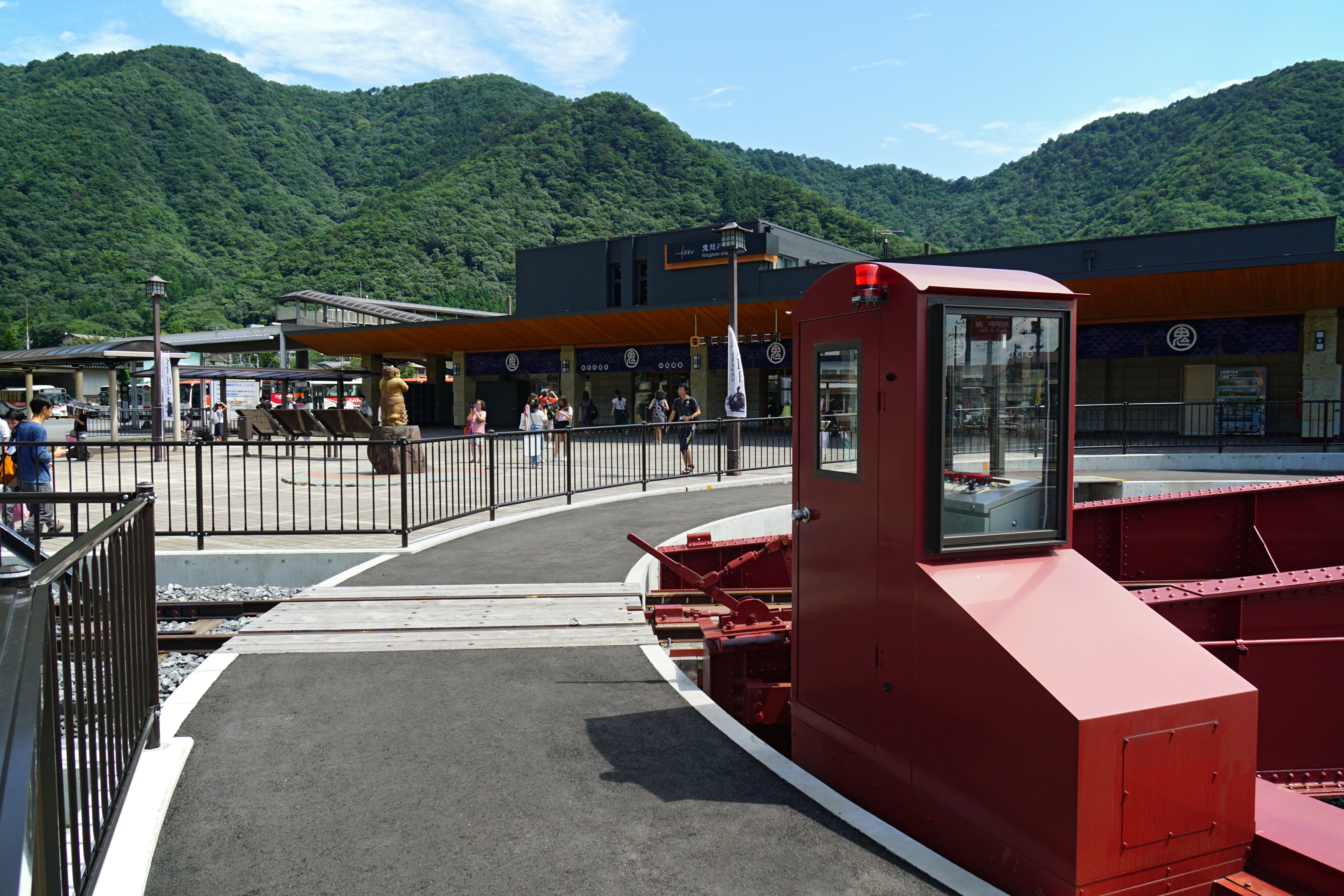 Kinugawa-Onsen Station in Nikko, Tochigi prefecture, Japan